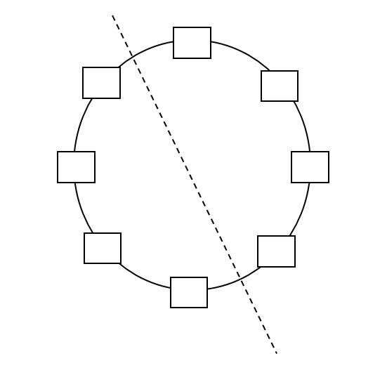 Diagram of a bisected ring network